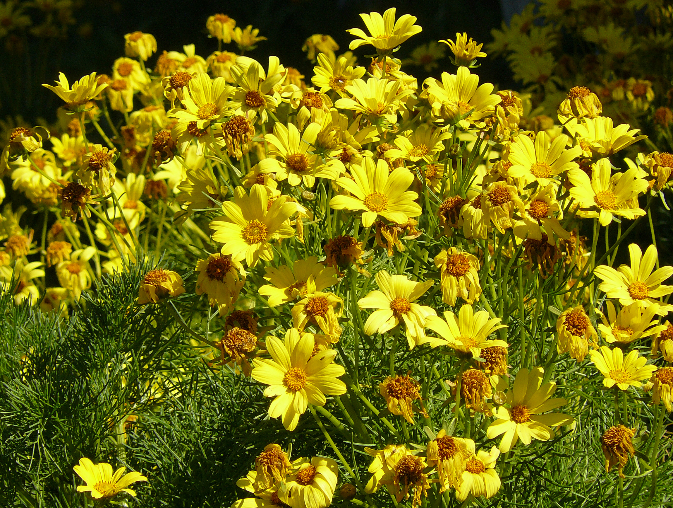 Coreopsis gigantea in San Luis Obispo County, California, USA.